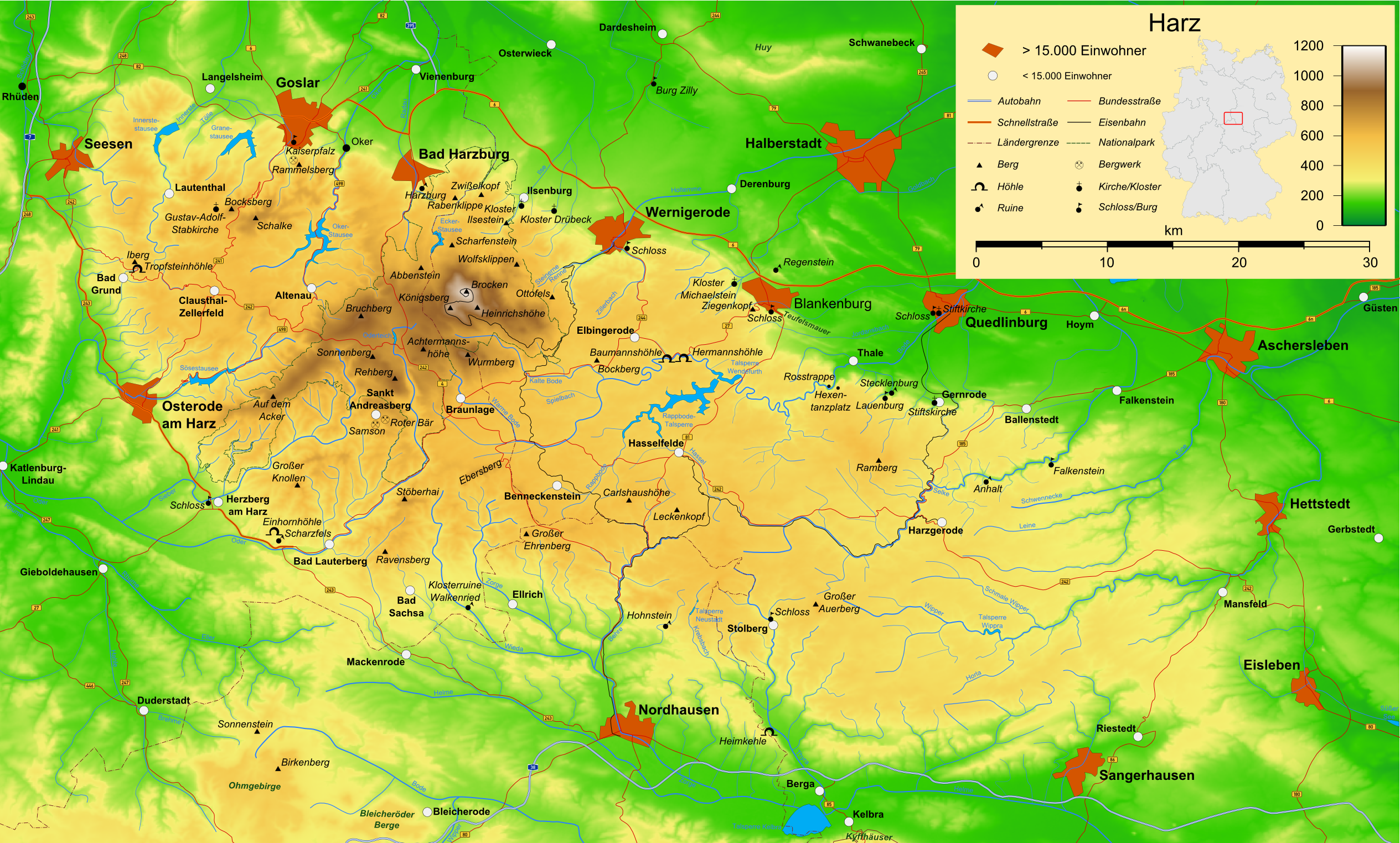 Map of the Harz mountains in Germany with mountains, rivers, lakes, reservoirs, all highways, all Bundesstraßen, Harzquerbahn, Brockenbahn, Selketalbahn, major towns and sights.